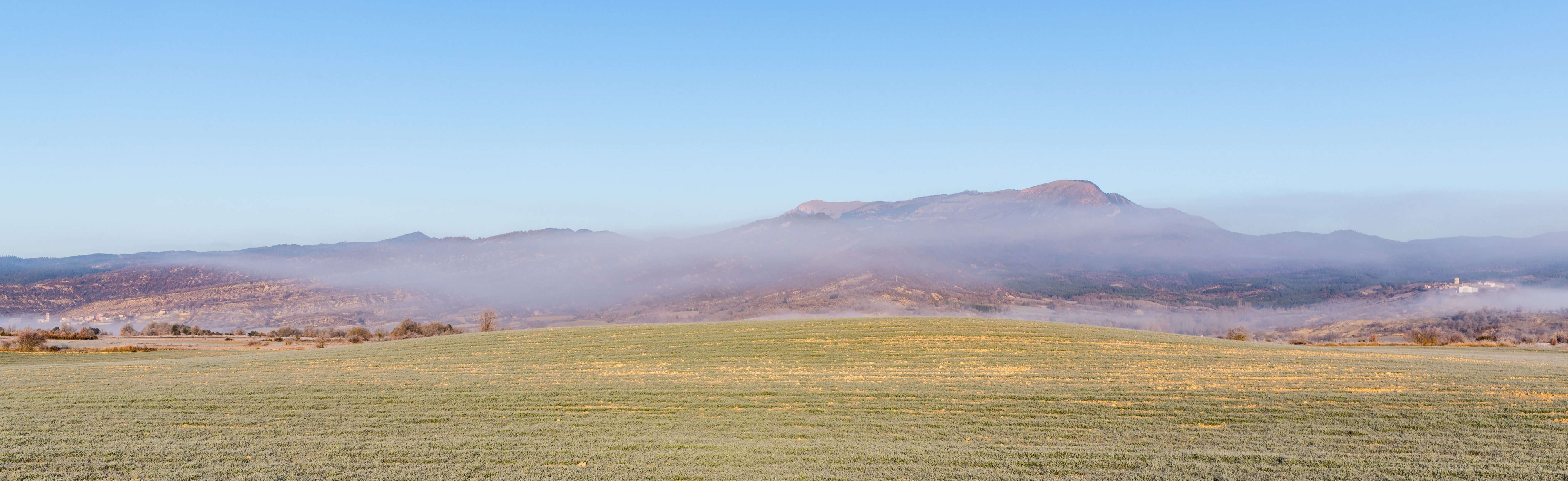 Orná de Gállego and Ibort, Huesca, Spain